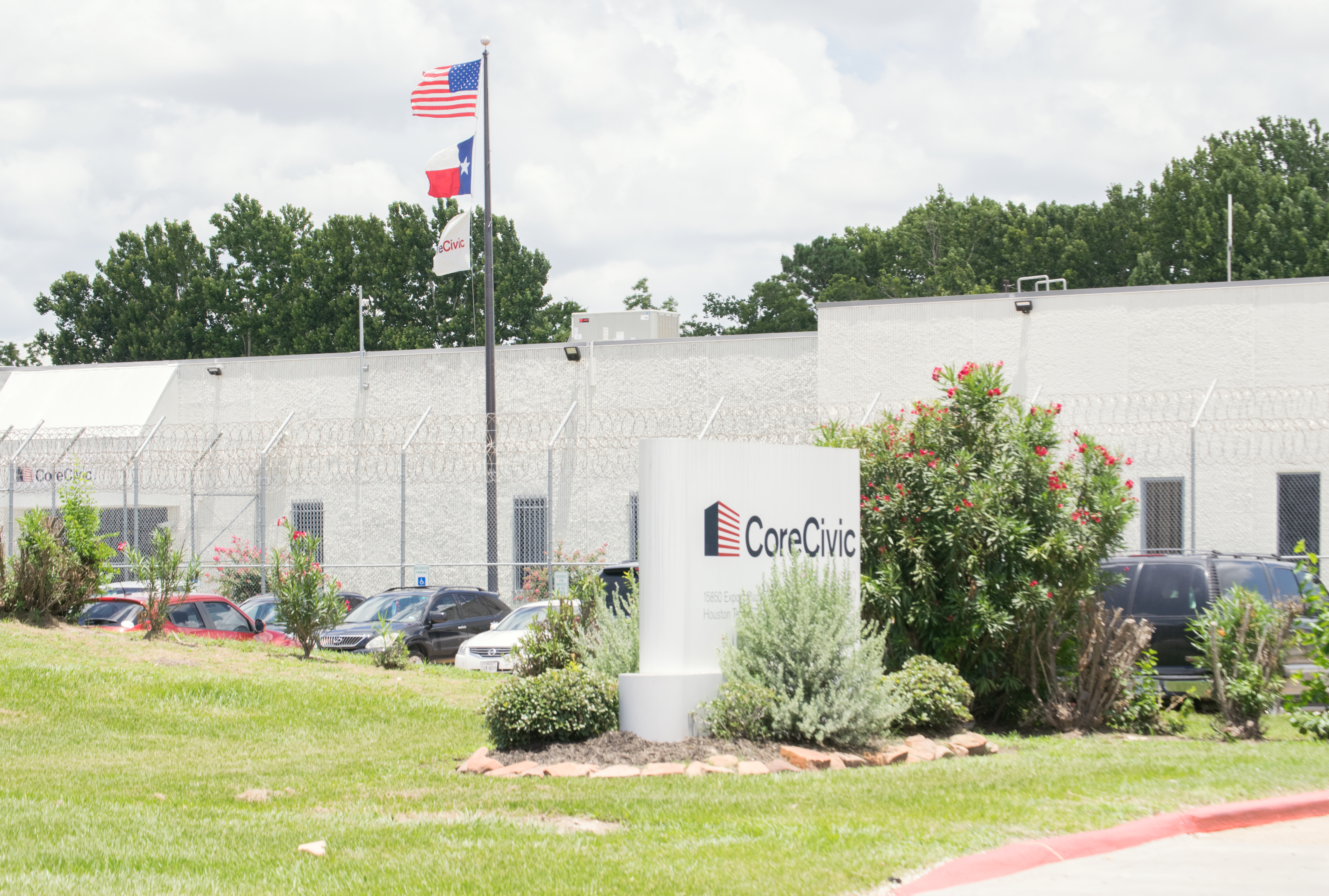 CoreCivic Houston Processing Center 15850 Export Plaza Drive Before the recent exposure of Southwest Key I was unaware of the extent to which private companies are benefiting from incarcerating immigrants, both adults and children.